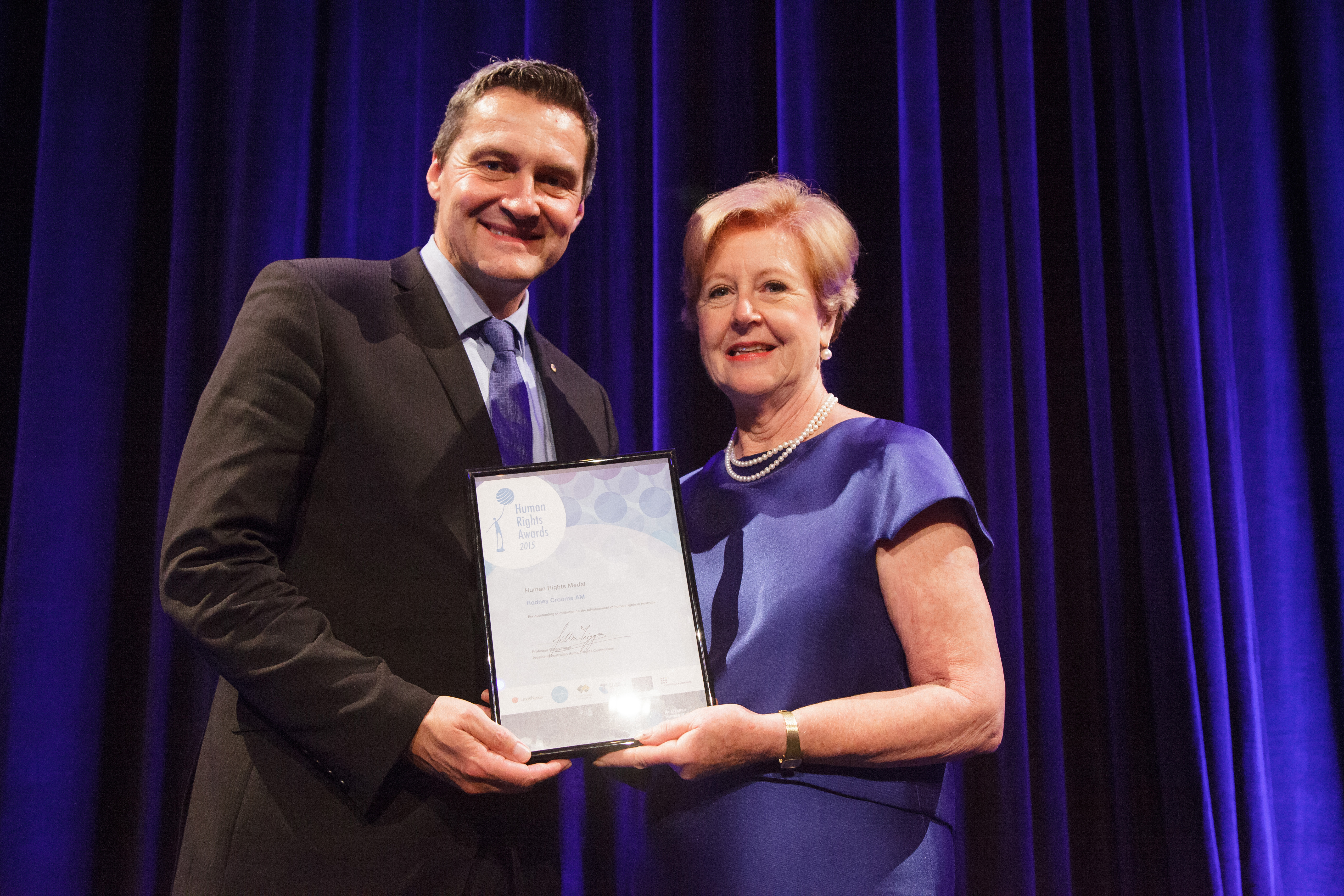 Rodney Croome and Gillian Triggs at the 2015 Human Rights Awards.